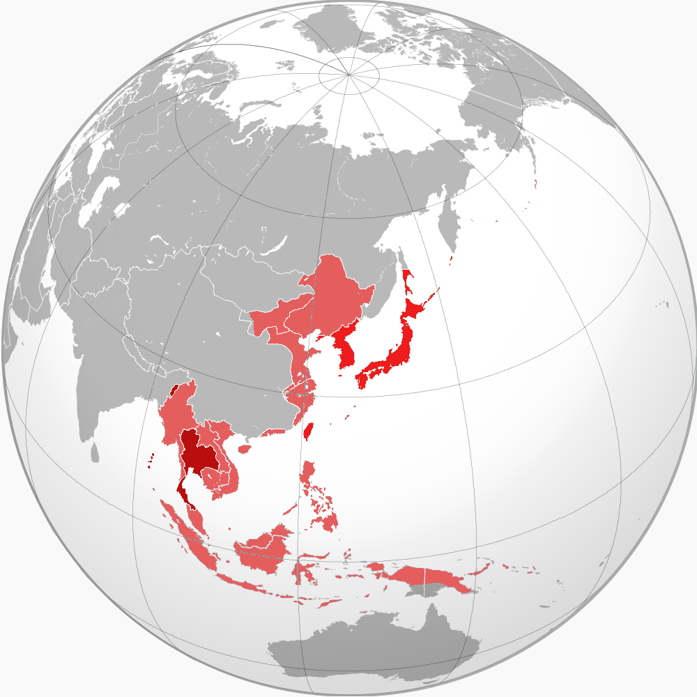 Area of Japanese puppet states during WW2 (Great East-Asian Co-prosperity sphere